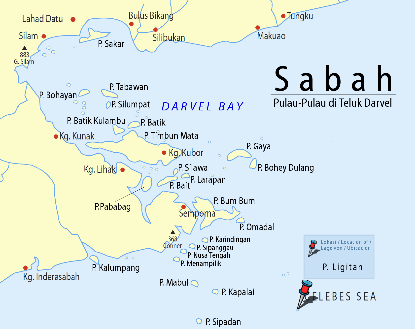 Sabah: Scheme of Islands in the Darvel Bay with Pushpin Marker for Pulau Ligitan (which is not part of the Darvel Bay)